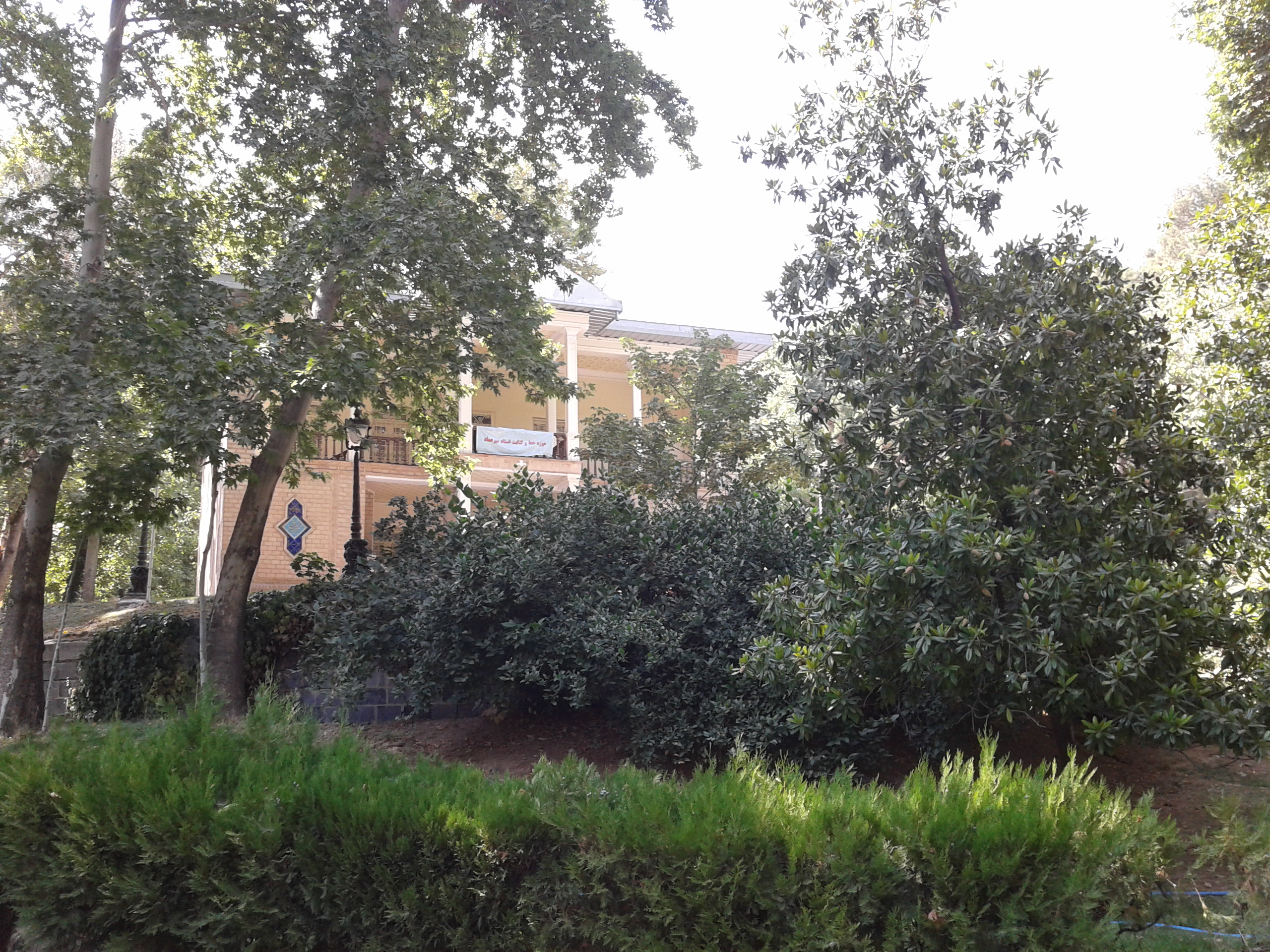 Farahnaz and Ali Reza Palace